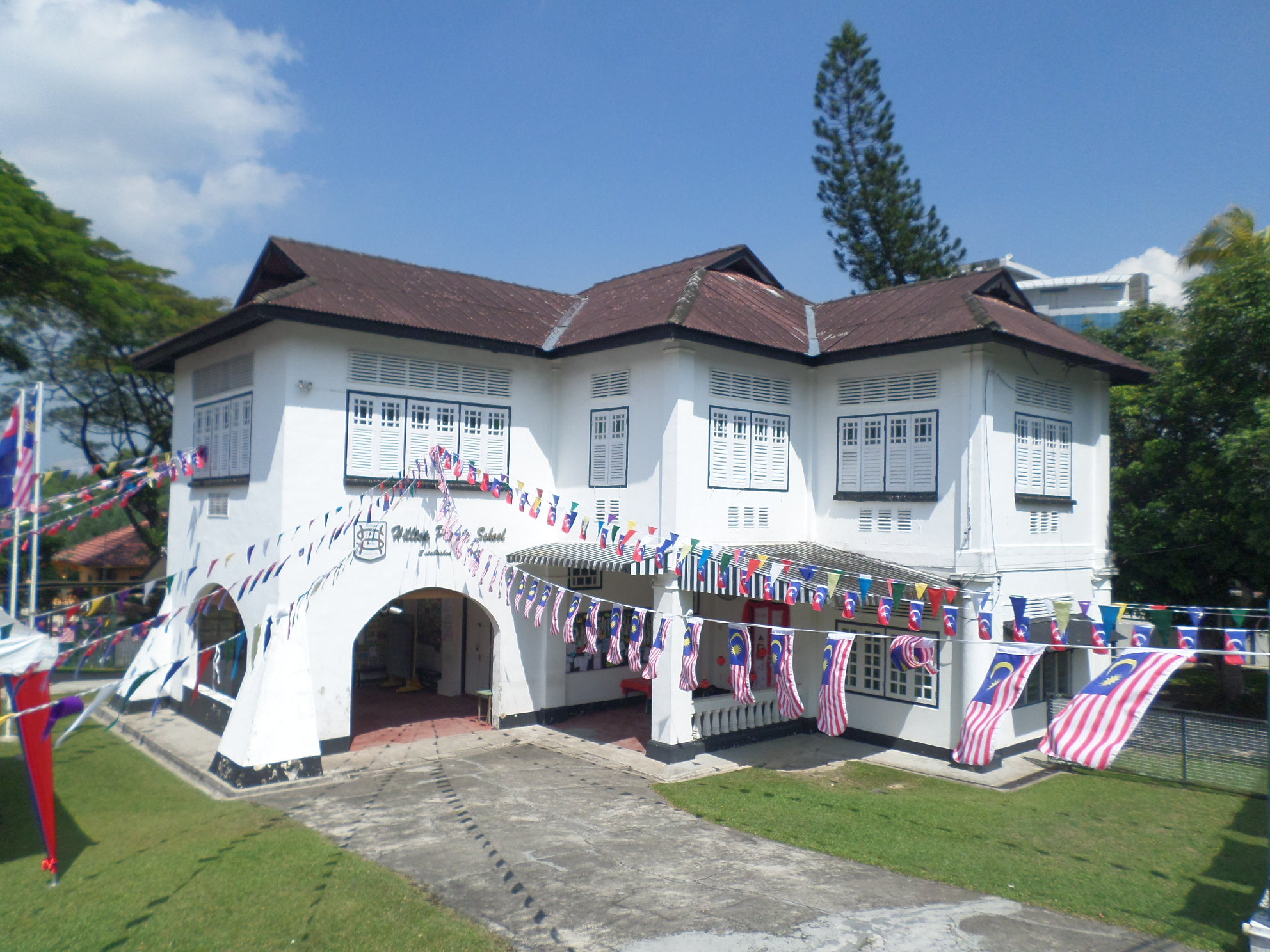 Hilltop Private School, Johor Bahru, Johor, Malaysia